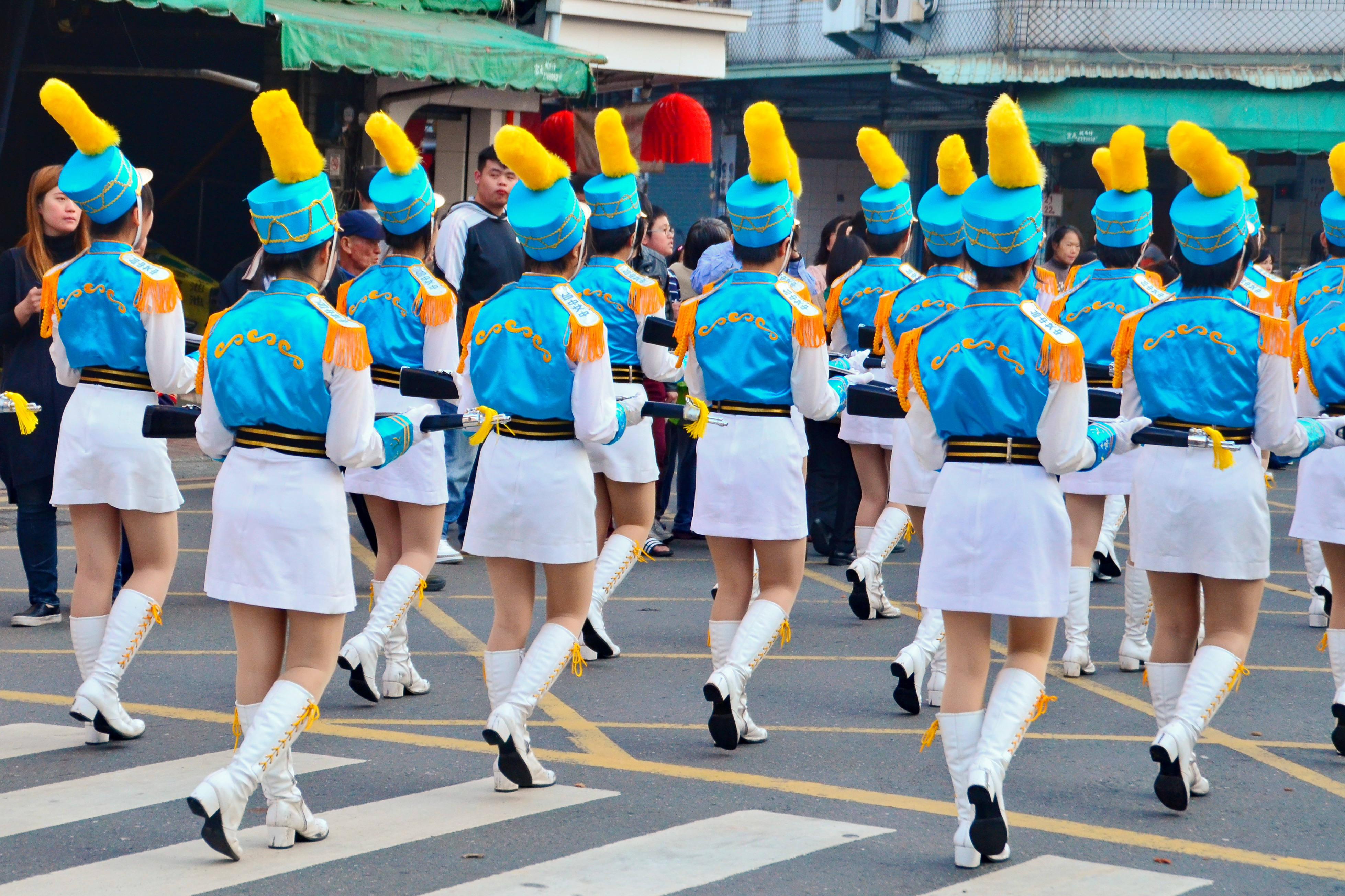 The school band of the National Taichung Girls' Senior High School at the Band Parade (Marching Carnival) of the 23rd Chiayi City International Band Festival (December 20, 2014, Wu-Feng North Road), Chiayi City, Taiwan.